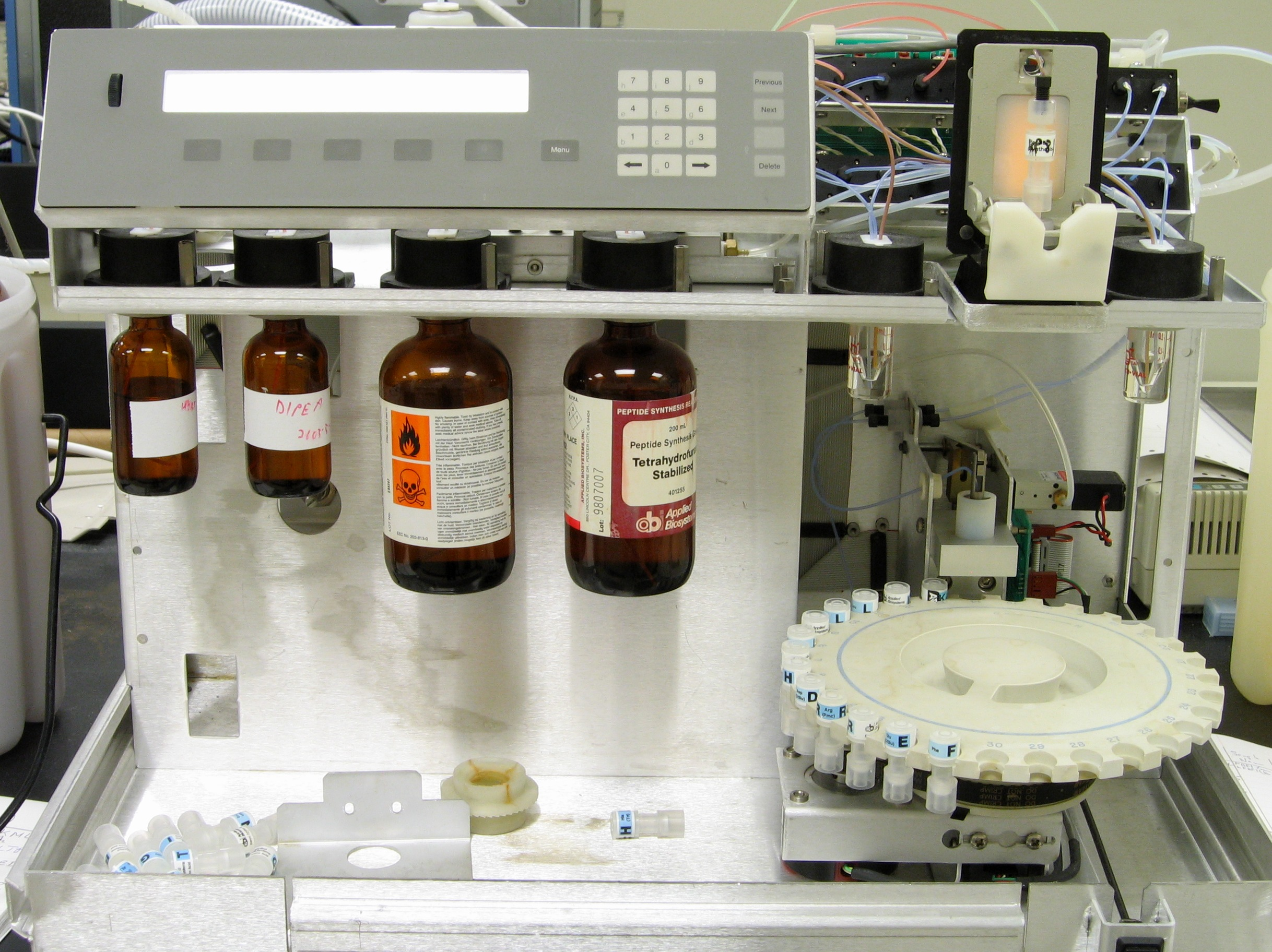 An ABI Synergy peptide synthesizer.